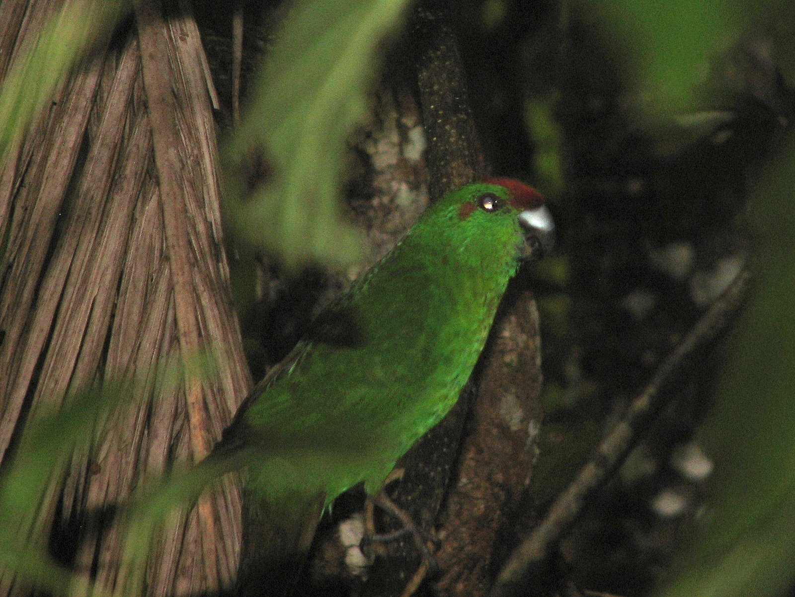 A Norfolk Parakeet (also called Tasman Parakeet, Norfolk Island Green Parrot or Norfolk Island Red-crowned Parakeet) in Palm Glen, Norfolk Island, Australia.